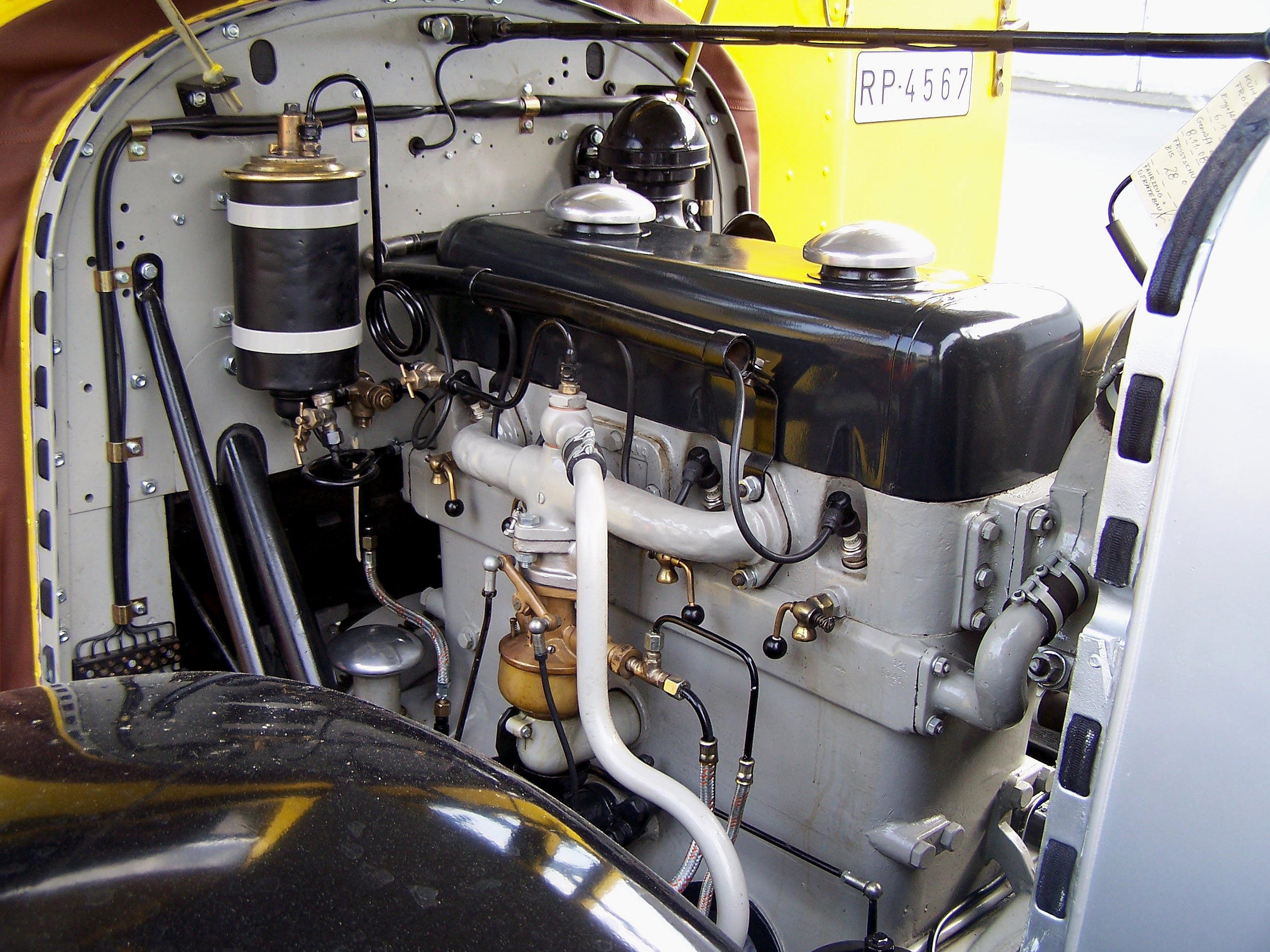 Engine of an historical post bus manufactured by DAAG in 1925